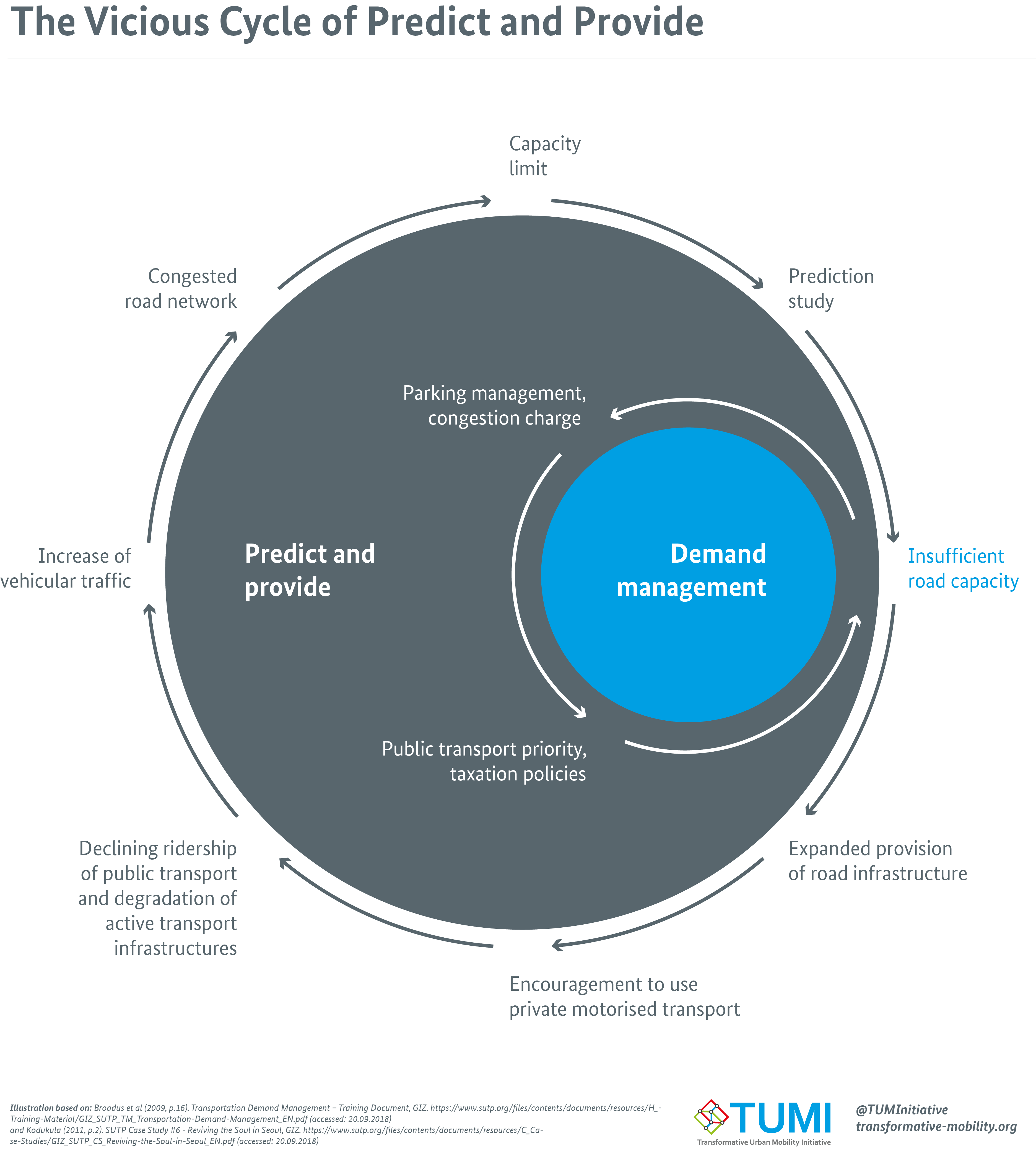 The Vicious Cycle of Predict and Provide Predict and provide Demand management Transformative Urban Mobility Initiative (TUMI)